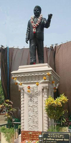 Jaikishan's (of famous Shankar-Jaikishan) statue in his birth place.